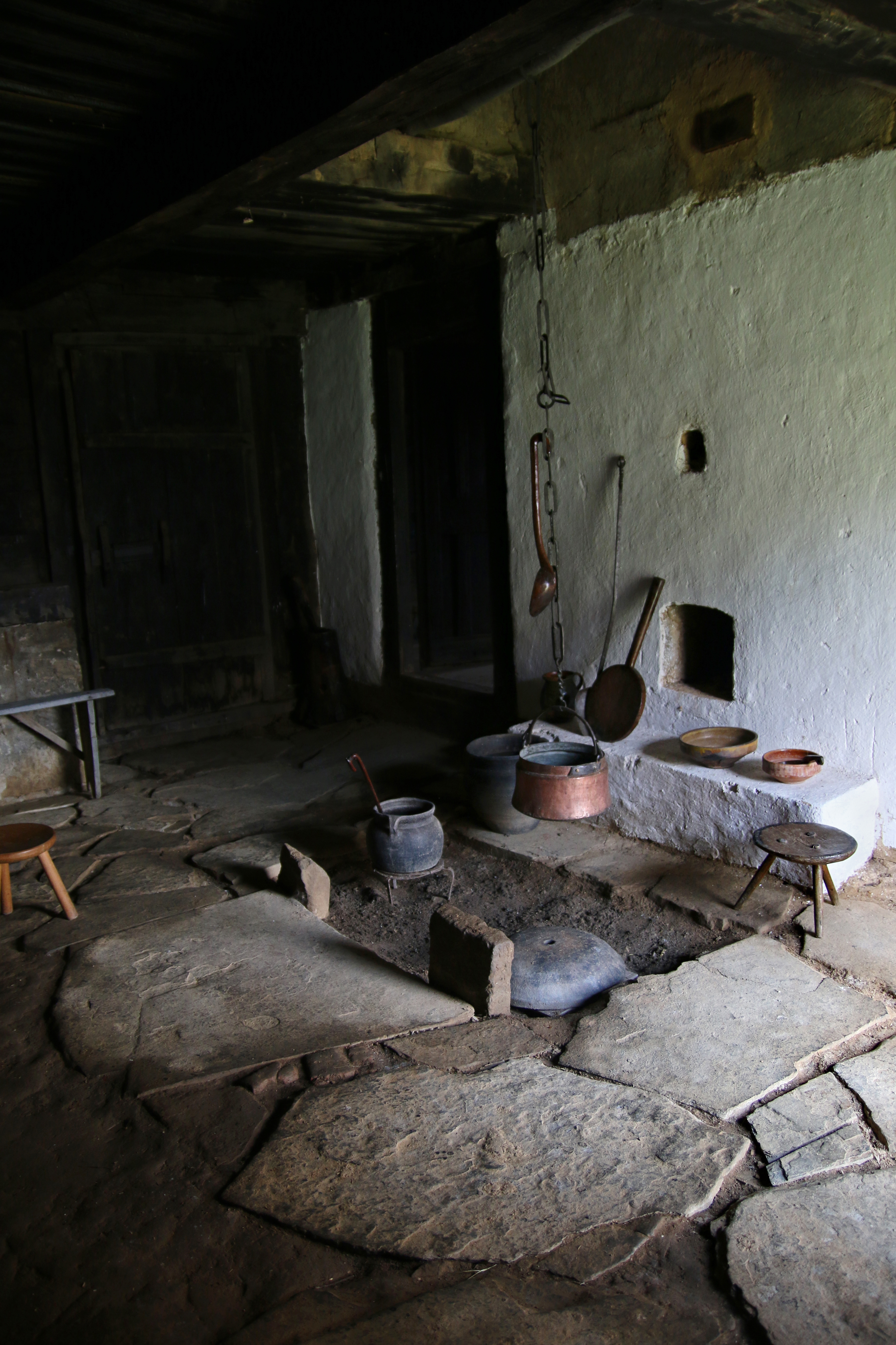 Milošev Konak is the residence of Serbian Prince Miloš Obrenović, which is located in Gornja Crnuća in the municipality of Gornji Milanovac, Serbia, and is one of the Monument of Culture of Exceptional Importance for Serbia. This house is of extreme importance because in it decision was made on raising the Second Serbian Uprising. Permanent exhibition in the house contains copies of documents, photographs and reproductions of several original artifacts related to the insurrectionist period. One of the dormitory has preserved the authentic atmosphere, a fireplace with a part of furniture and built in tile stove furnace.